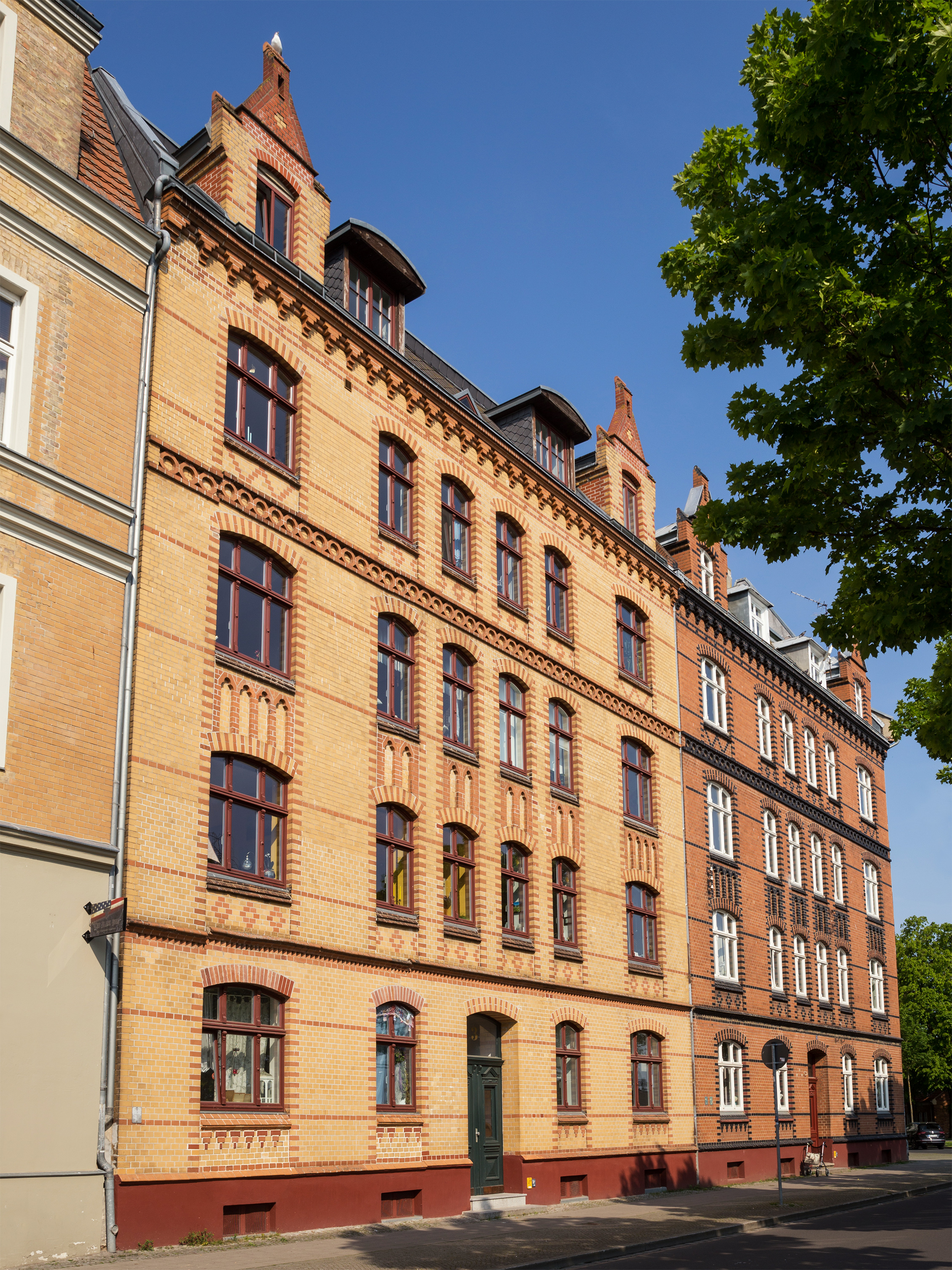 Stralsund, Seestraße 3, cultural heritage monument